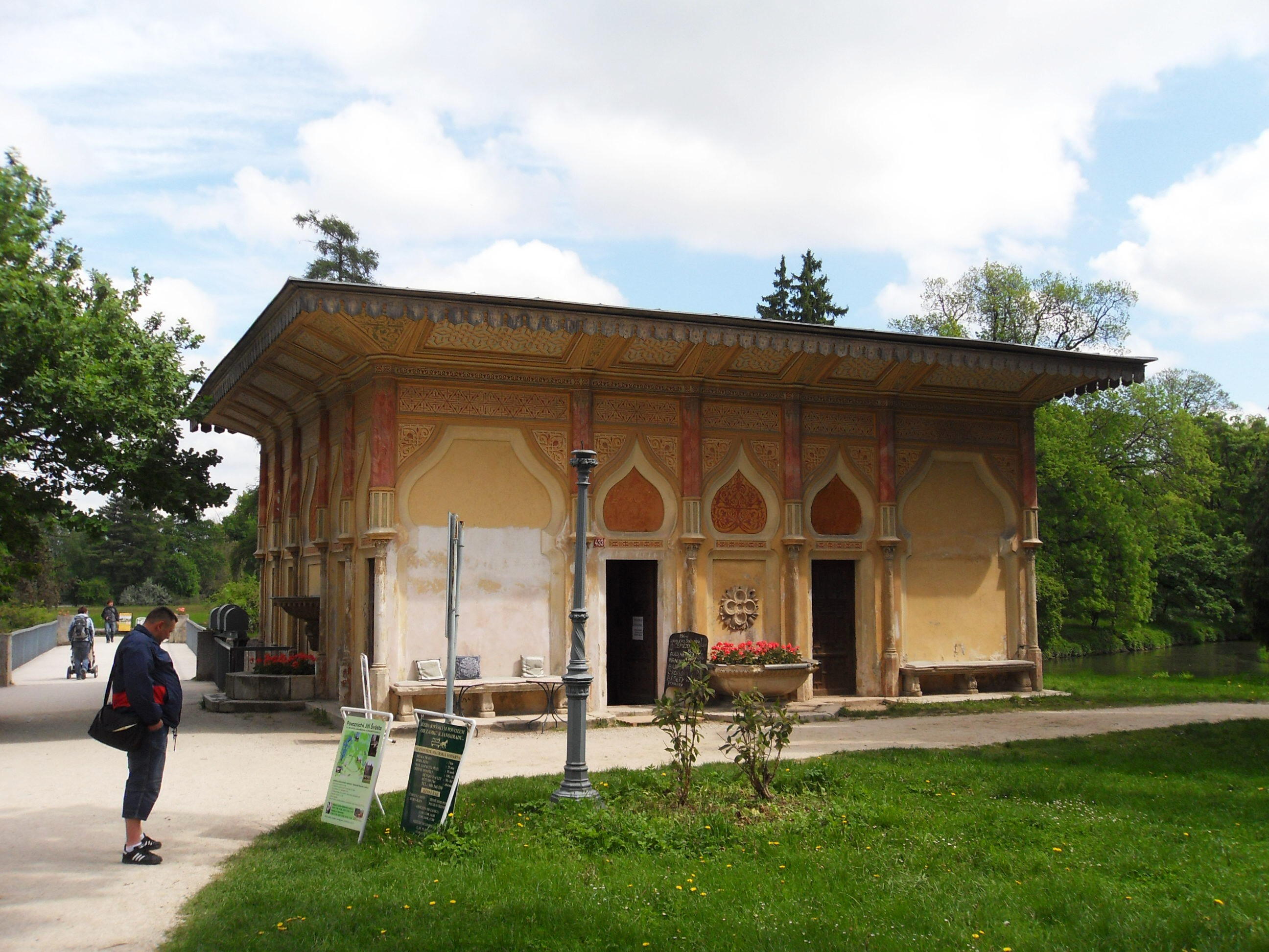 Garden of castle, Lednice, Břeclav district, Czech Republic